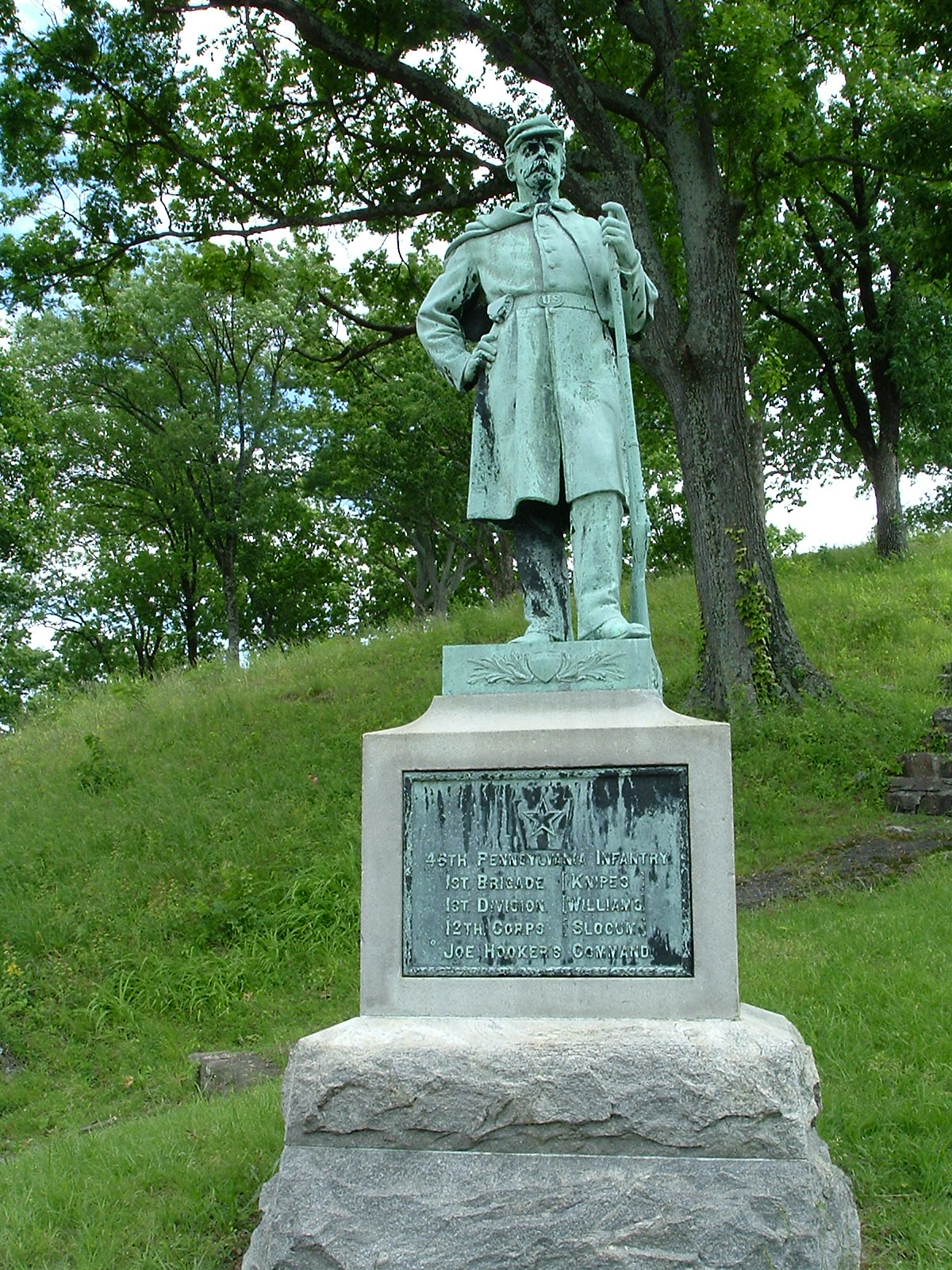 46th Pennsylvania monument (dedicated 1897) on Orchard Knob, Chattanooga, TN. Photo by M. Stewart.